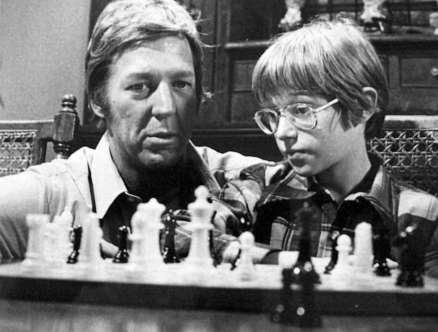 Photo of David Hartman as Lucas Tanner and Scott Glaser from the television program Lucas Tanner. Glaser plays a gifted student Tanner tries to help.